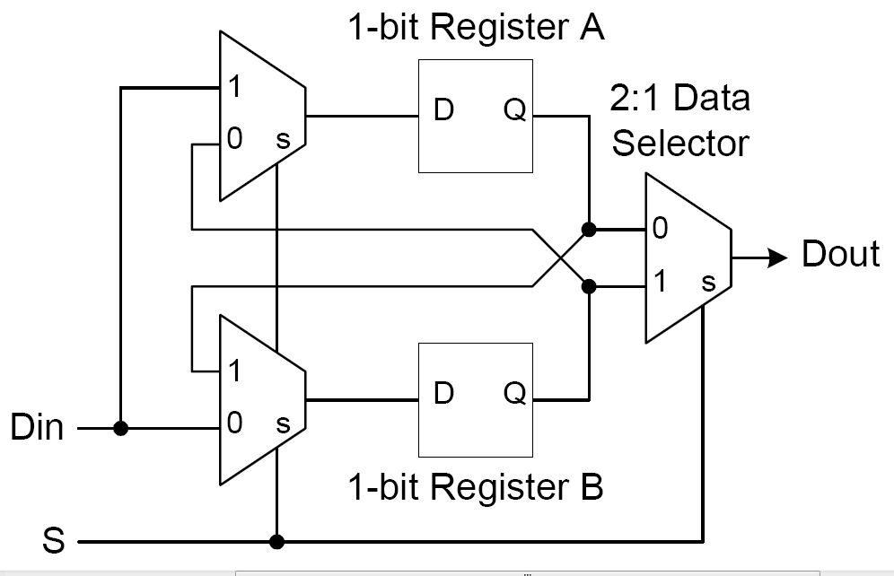 The picture describes shuffle network used in combiner funciton in HDCP cipher